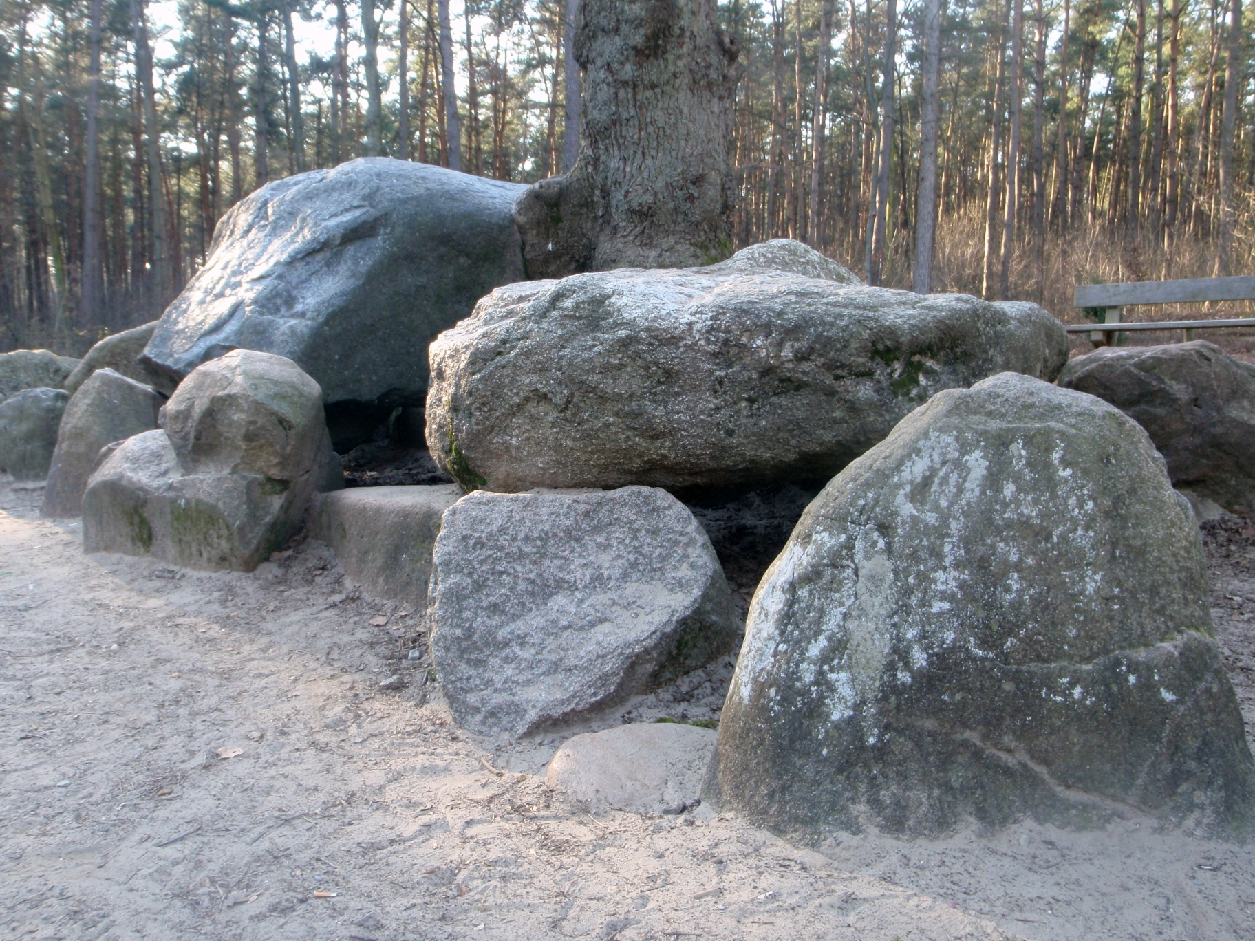 Dolmen "Devil's stones" nearby Heiden, Kreis Borken, North-Rhine-Westphalia in Germany. Photo was taken 20/03/2011.